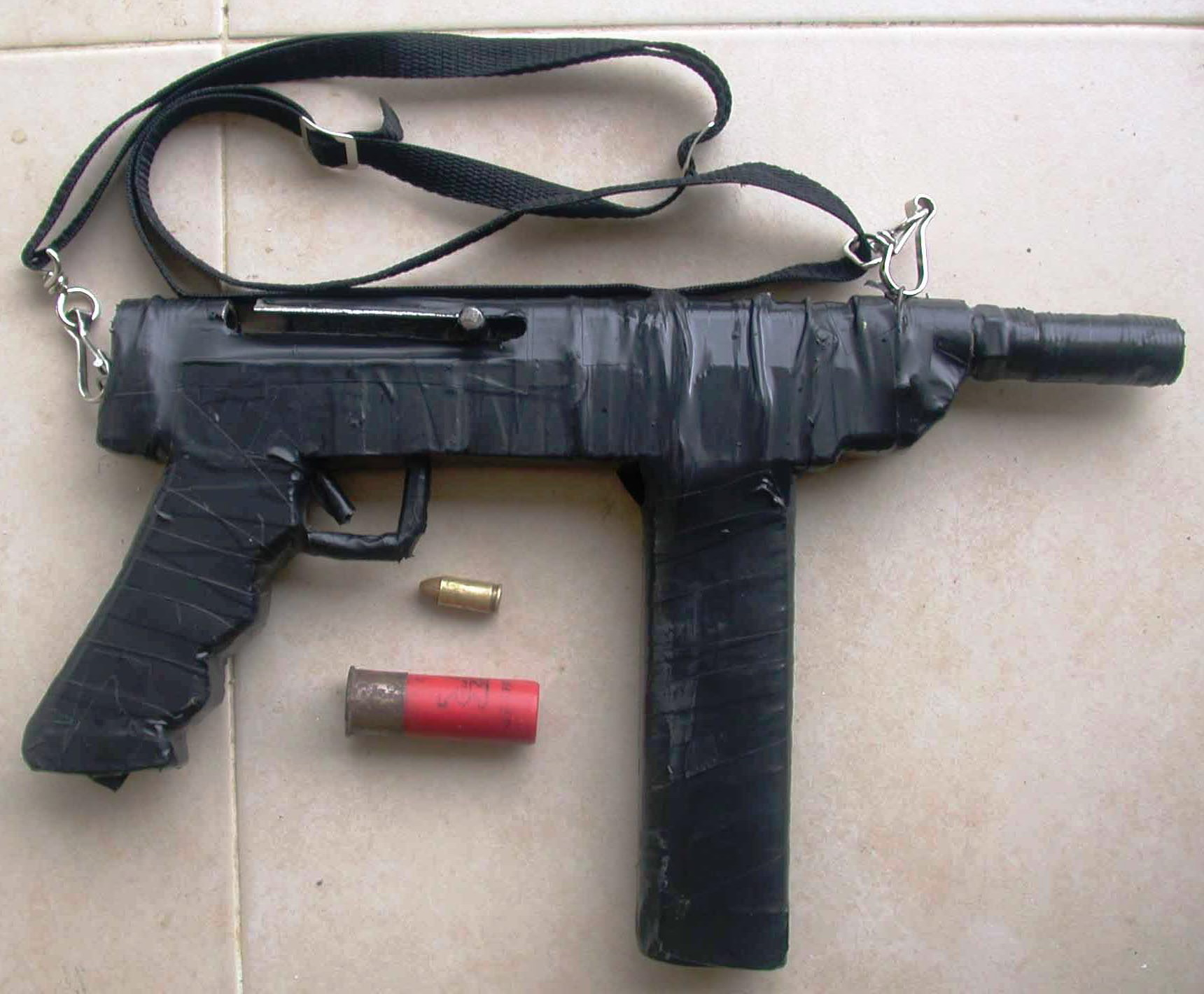 03/16/2006 IDF forces arrested a Palestinian who approached the Beit Purik Checkpoint, east of Nablus. After a routine check, he was found with a loaded improvised weapon. The Israel Defense Forces Facebook The Israel Defense Forces blog Follow us on Twitter